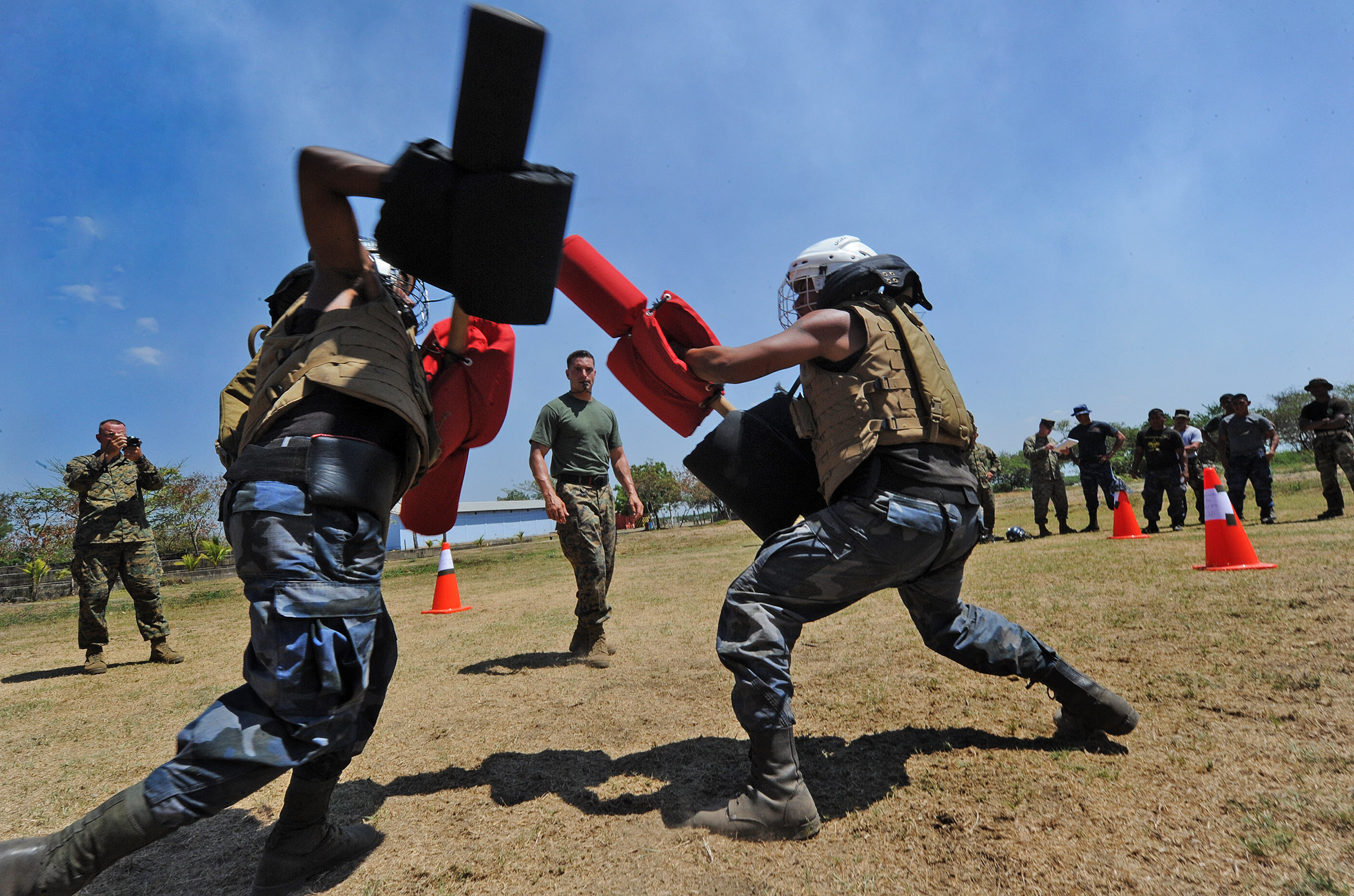 CORINTO, Nicaragua (March 24, 2011) U.S. Marine Sgt. Michael Roth, assigned to Marine Corps Training and Advisory Group, observes Nicaraguan sailors and soldiers participate in a combat training exercise during a Southern Partnership Station (SPS) 2011 subject matter expert exchange. SPS is an annual deployment of U.S. ships to the U.S. Southern Command area of responsibility in the Caribbean and Latin America. (U.S. Navy photo by Mass Communication Specialist 1st Class Jeffery Tilghman Williams/Released)